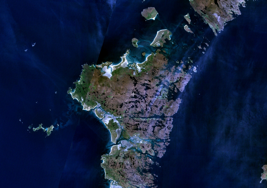 Screengrab of North Uist from Nasa World Wind